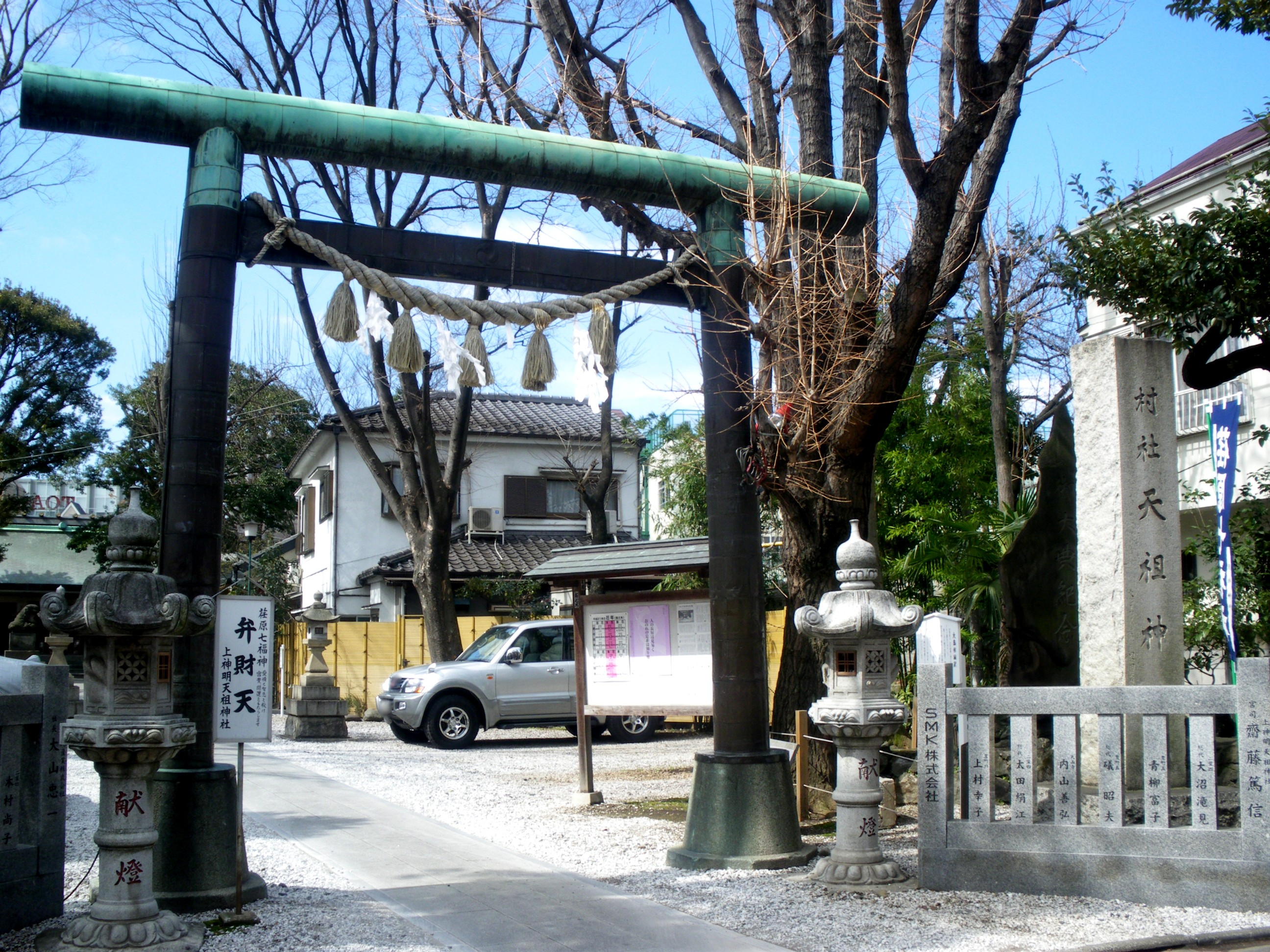 A photo of Kamishinmei Tenso Jinja,Futaba,Shinagawa-ku,Tokyo,Japan.